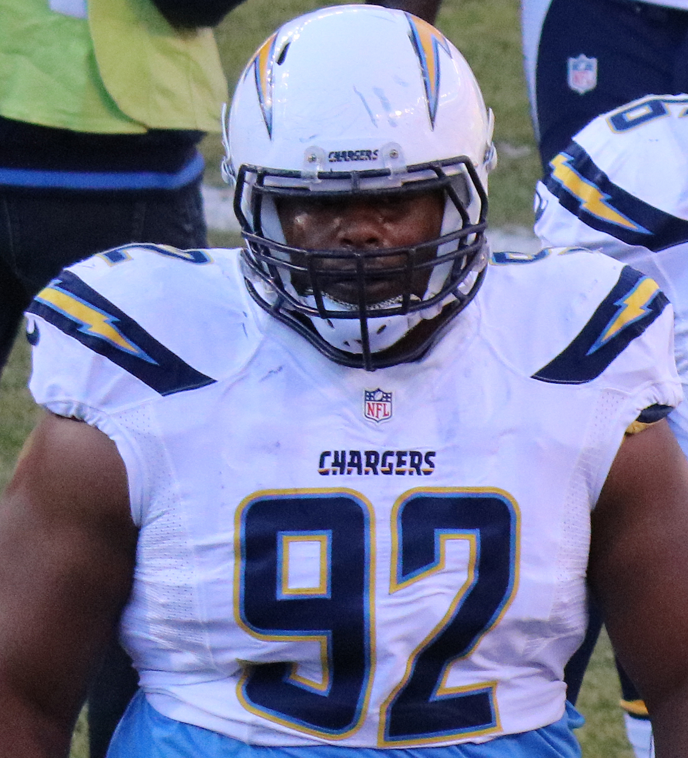 Ryan Carrethers, a player on the National Football League.